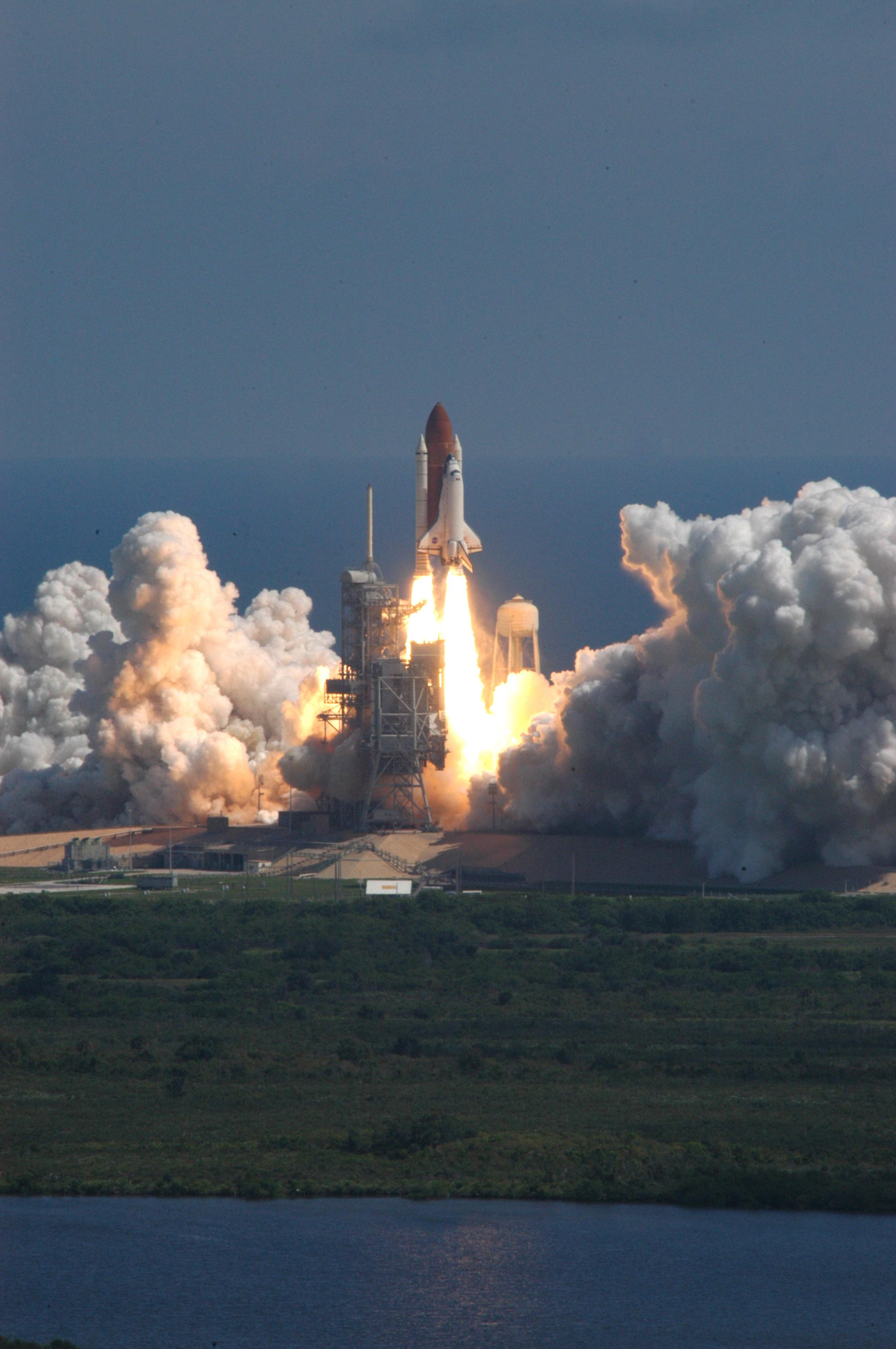 Launch of Space Shuttle Atlantis STS-115